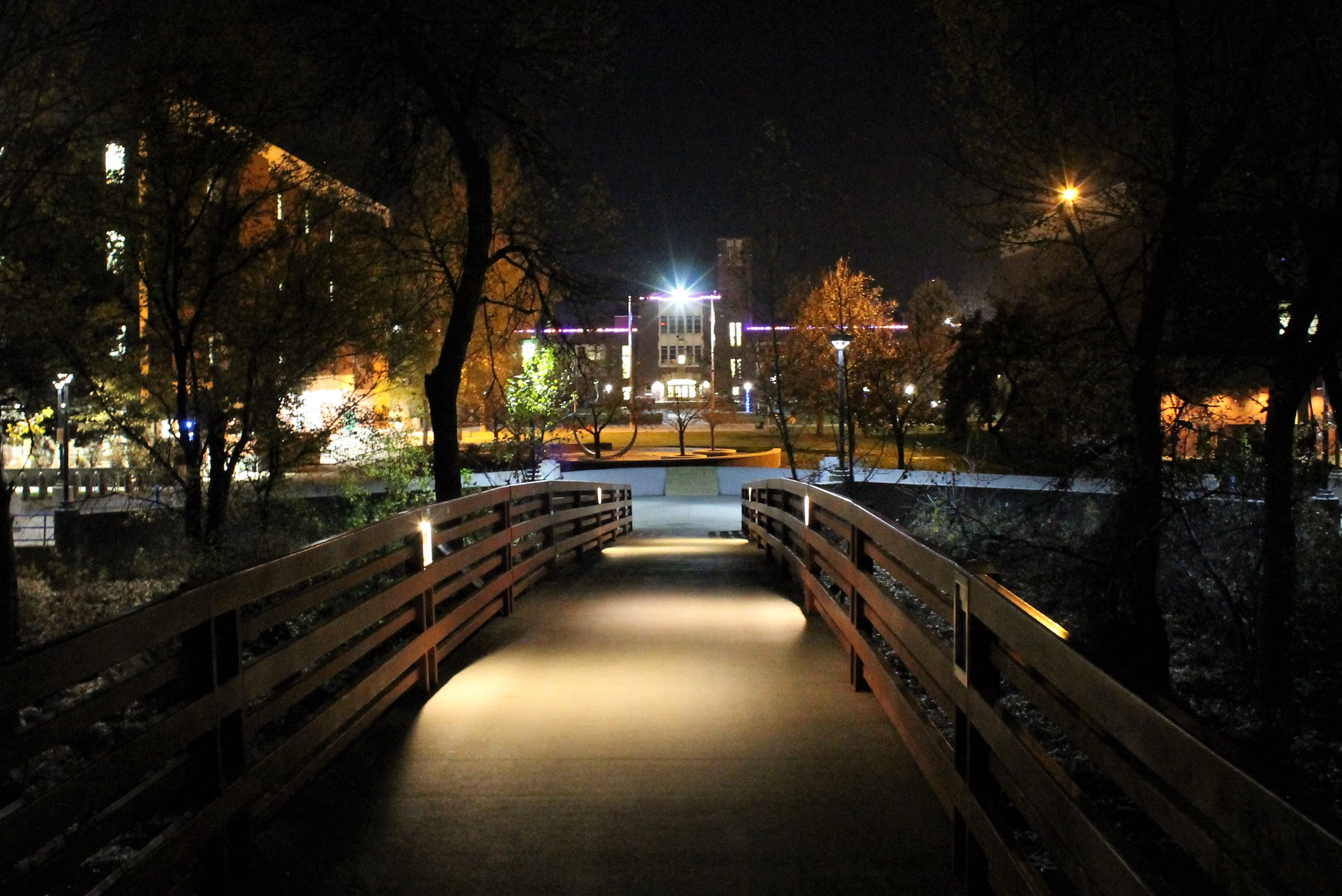 This is the Boise State Administration Building as seen from the iconic Friendship Bridge on the Boise Greenbelt.